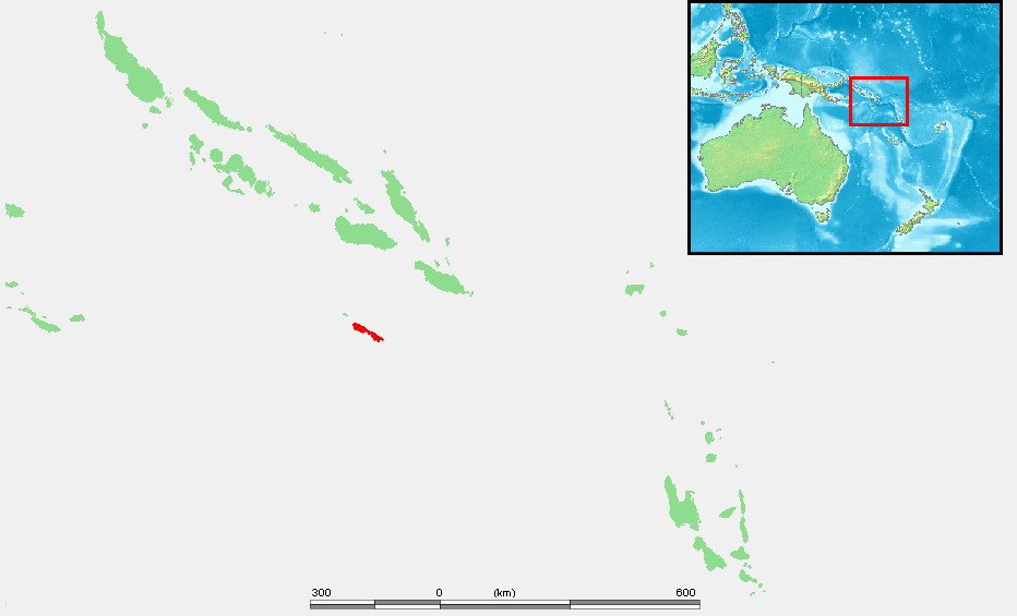 Island of Solomon Islands - Rennel.PNG